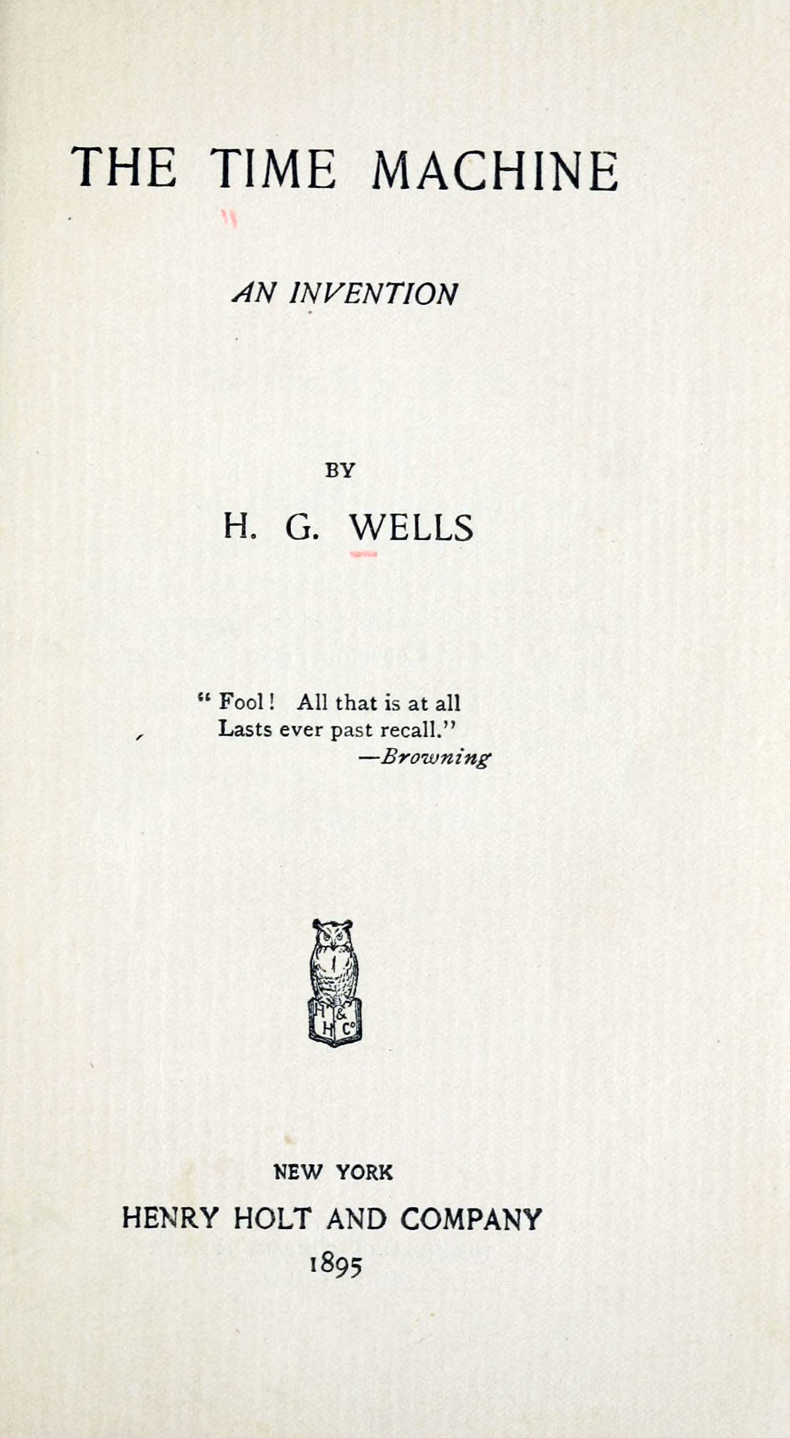 Title page of the American original edition.